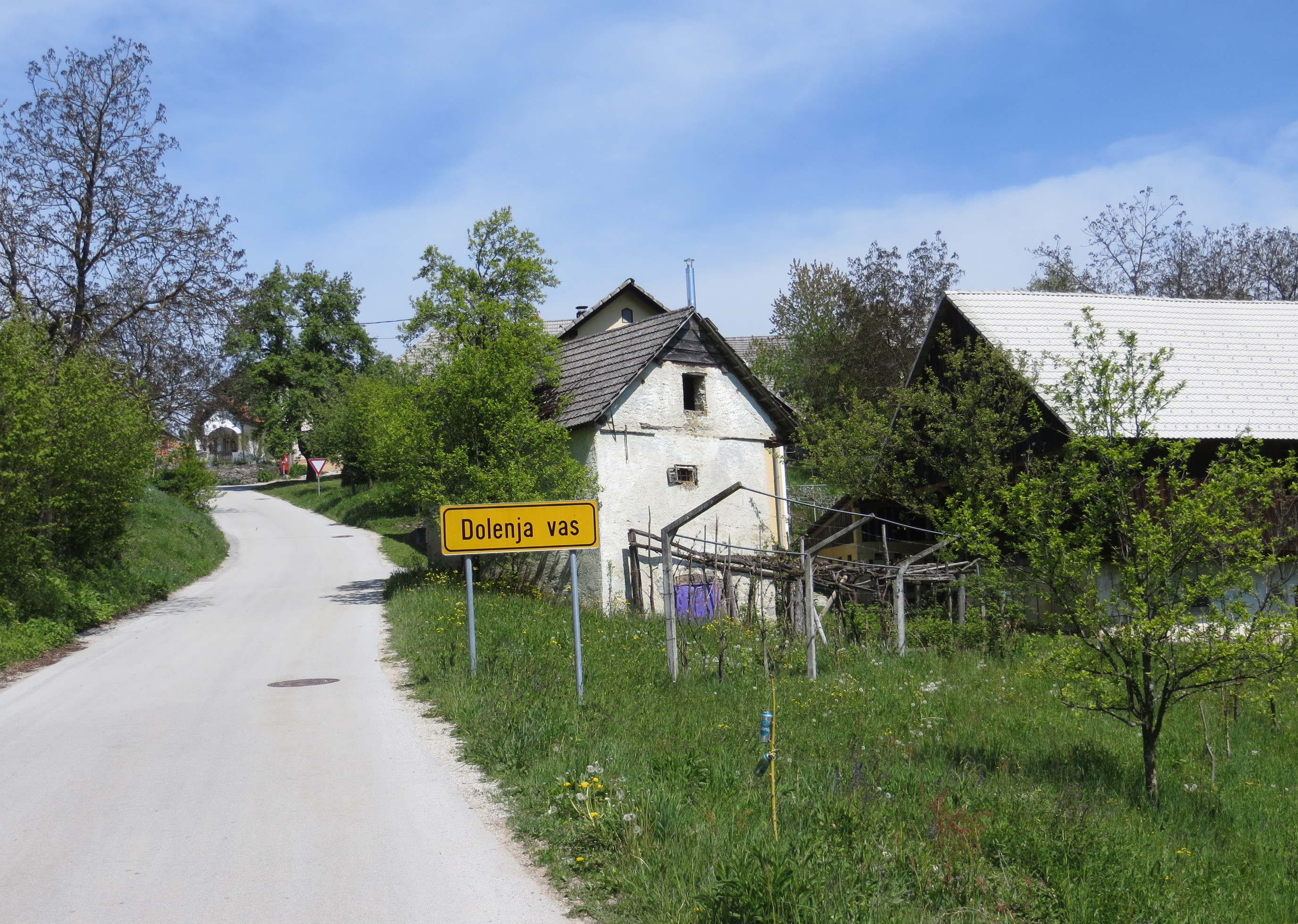 Dolenja Vas pri Čatežu, Municipality of Trebnje, Slovenia